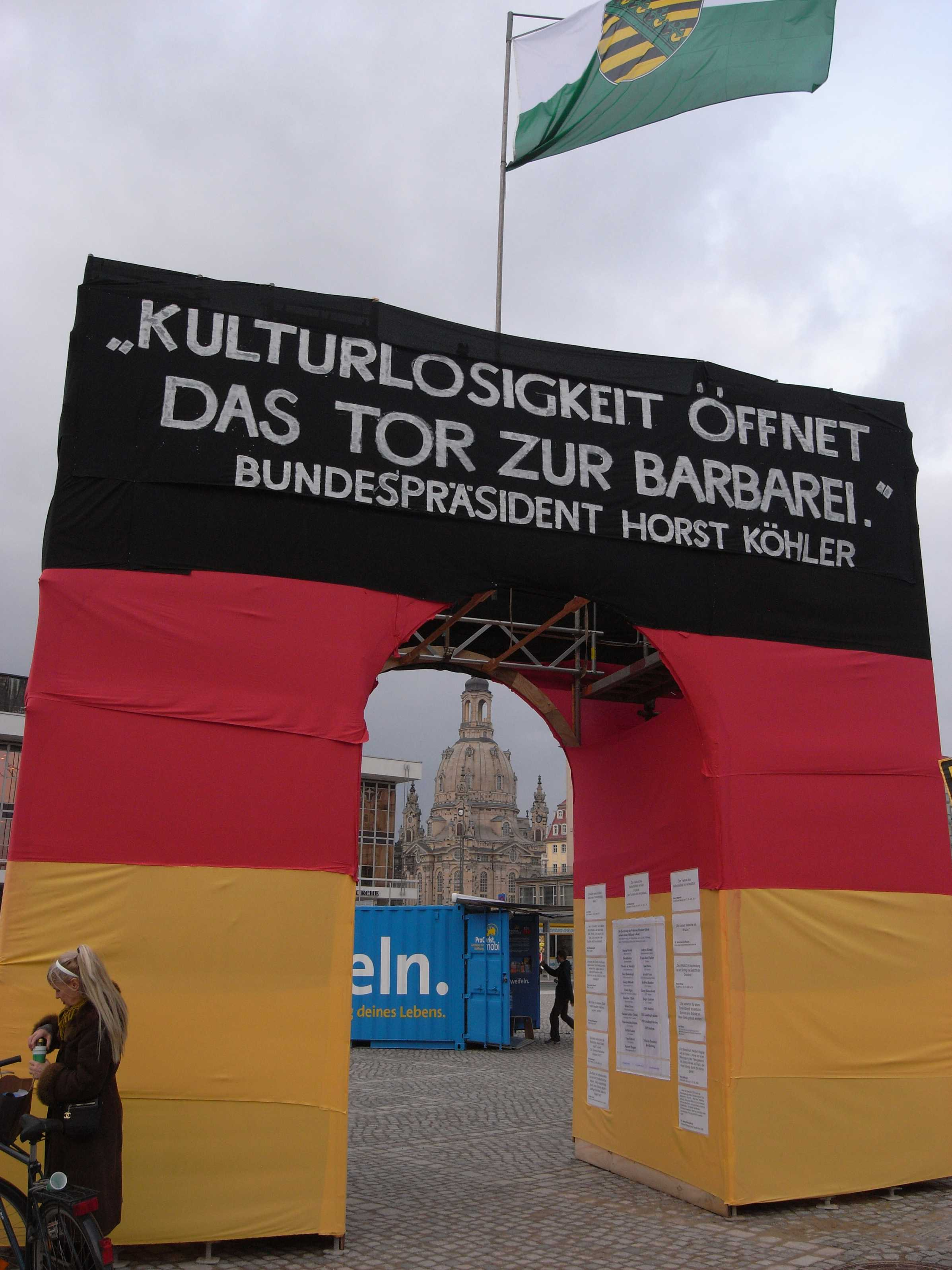 information desk on the Altmarkt from Dresden (controversy of bridge) comparison of public statements by many public figures (the pro and cons)